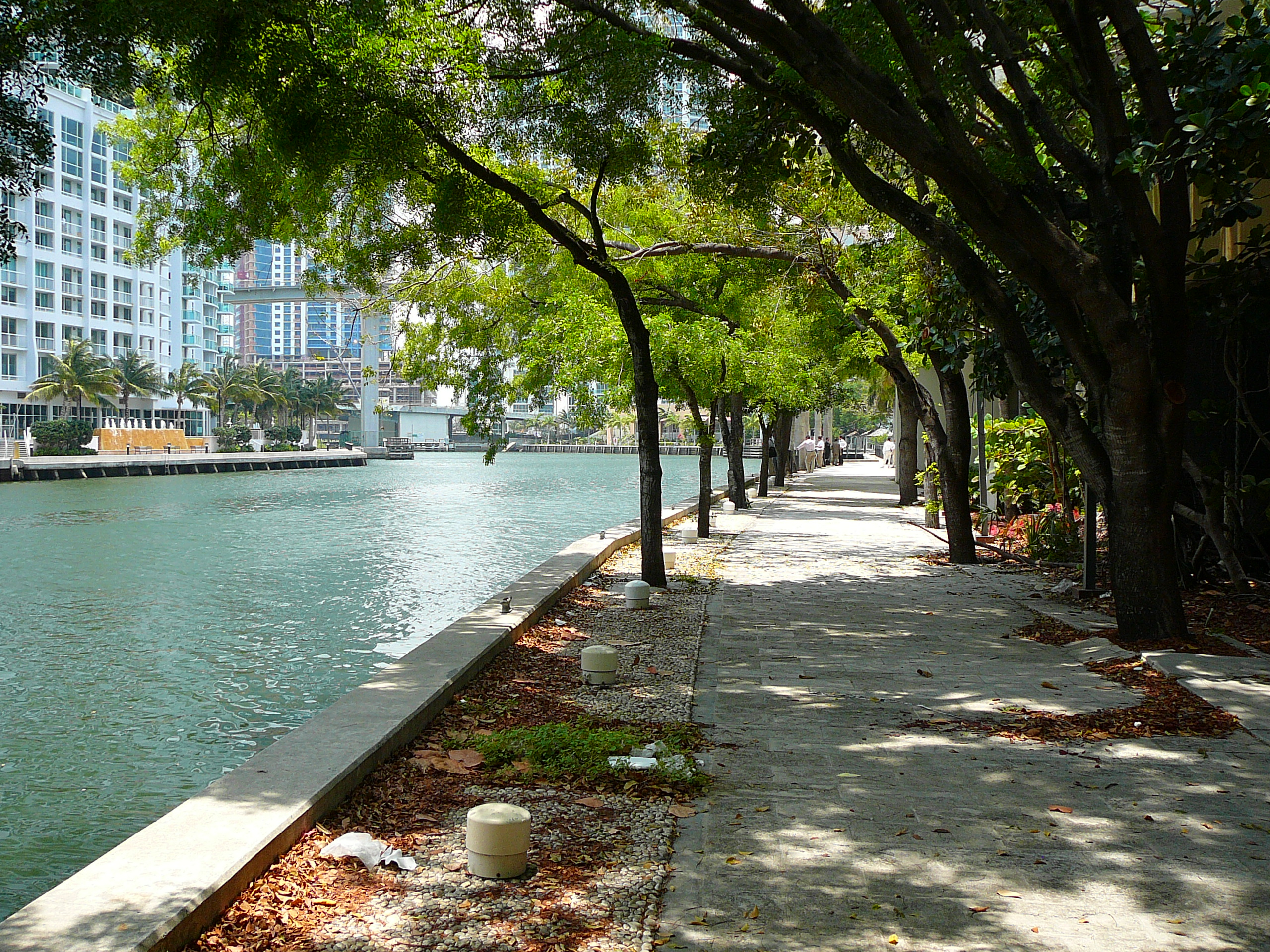 Digital photo taken by Marc Averette. View of the Miami Riverwalk along the Miami River 5/14/2008